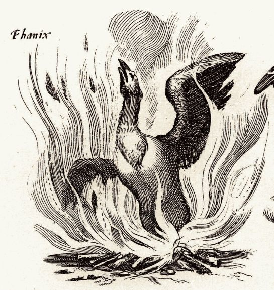 Print of a Phoenix rising from the flames, caption "Phanix".